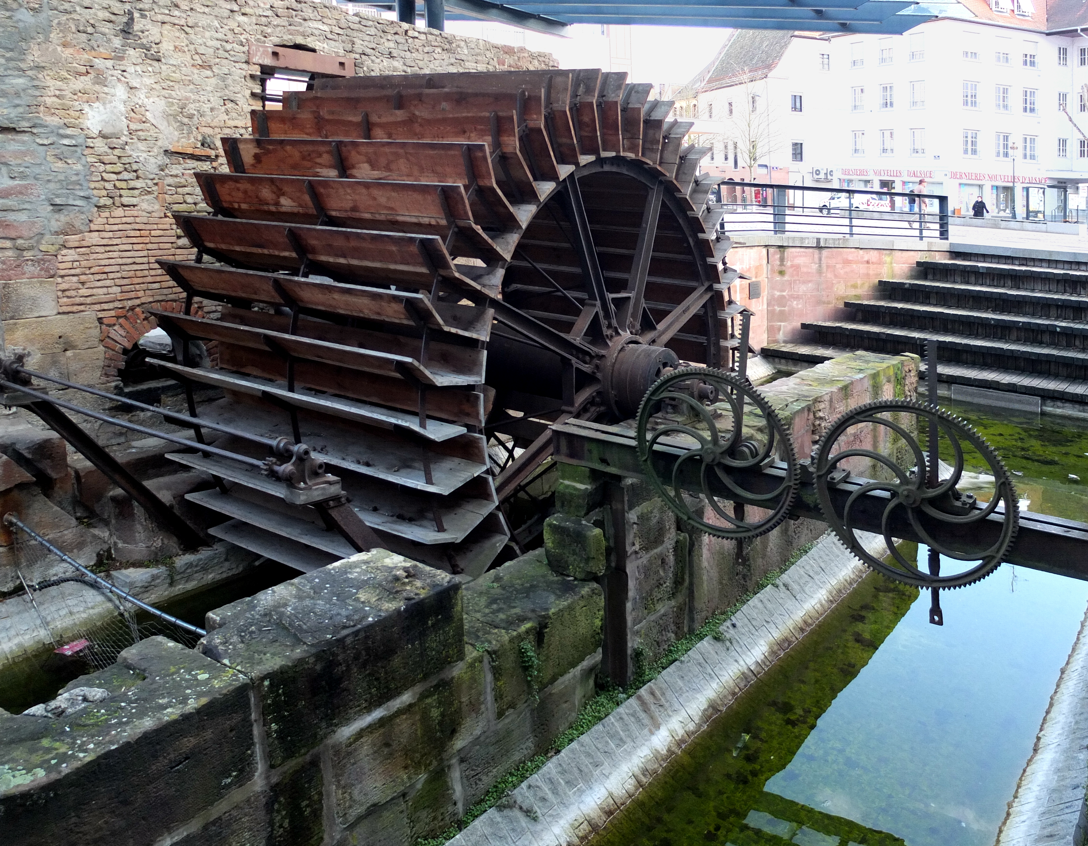 "Moulin de Dislach" in Haguenau, département du Bas-Rhin, France.